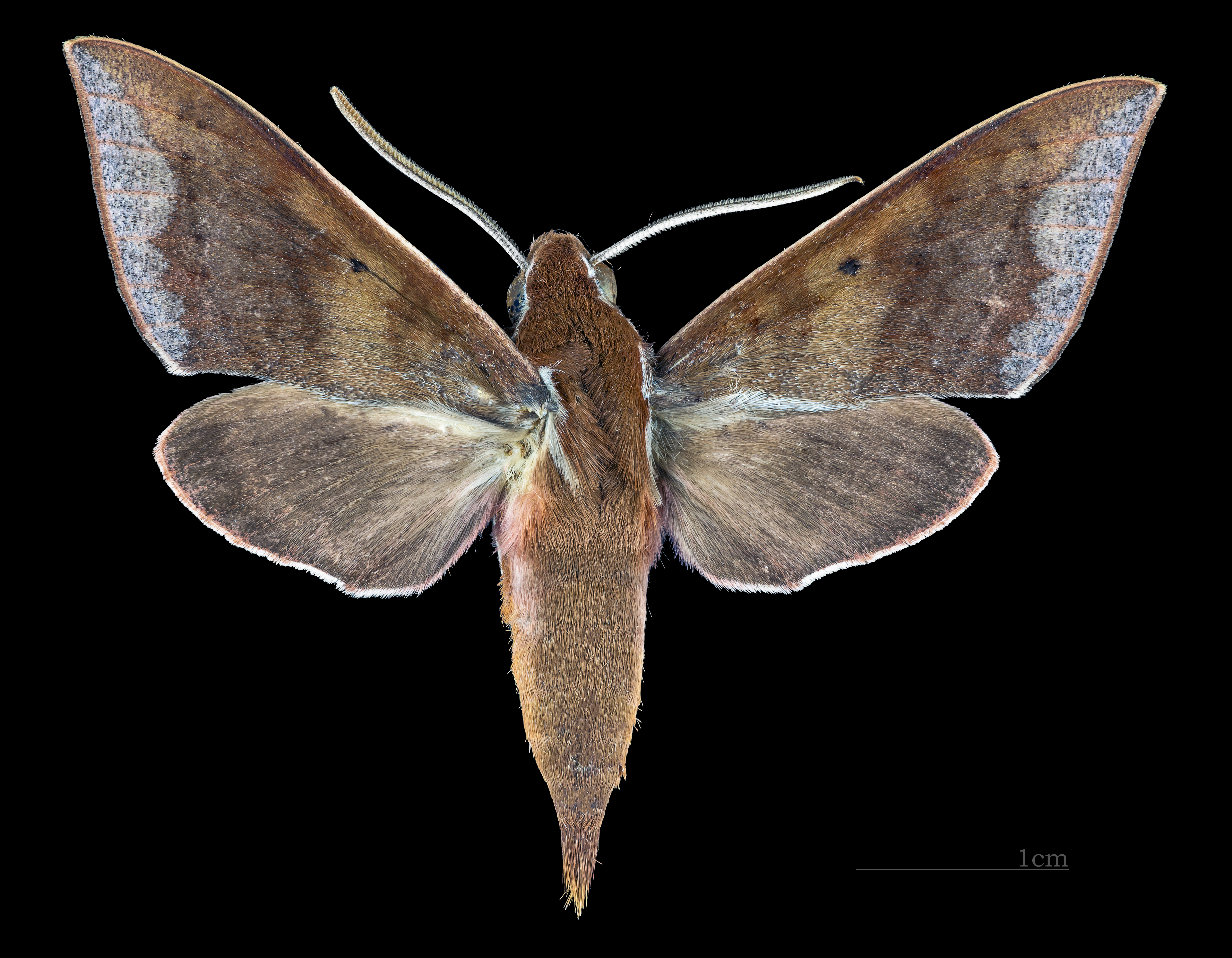 Theretra castanea - Dorsal side Collection of the Mathematician Laurent Schwartz